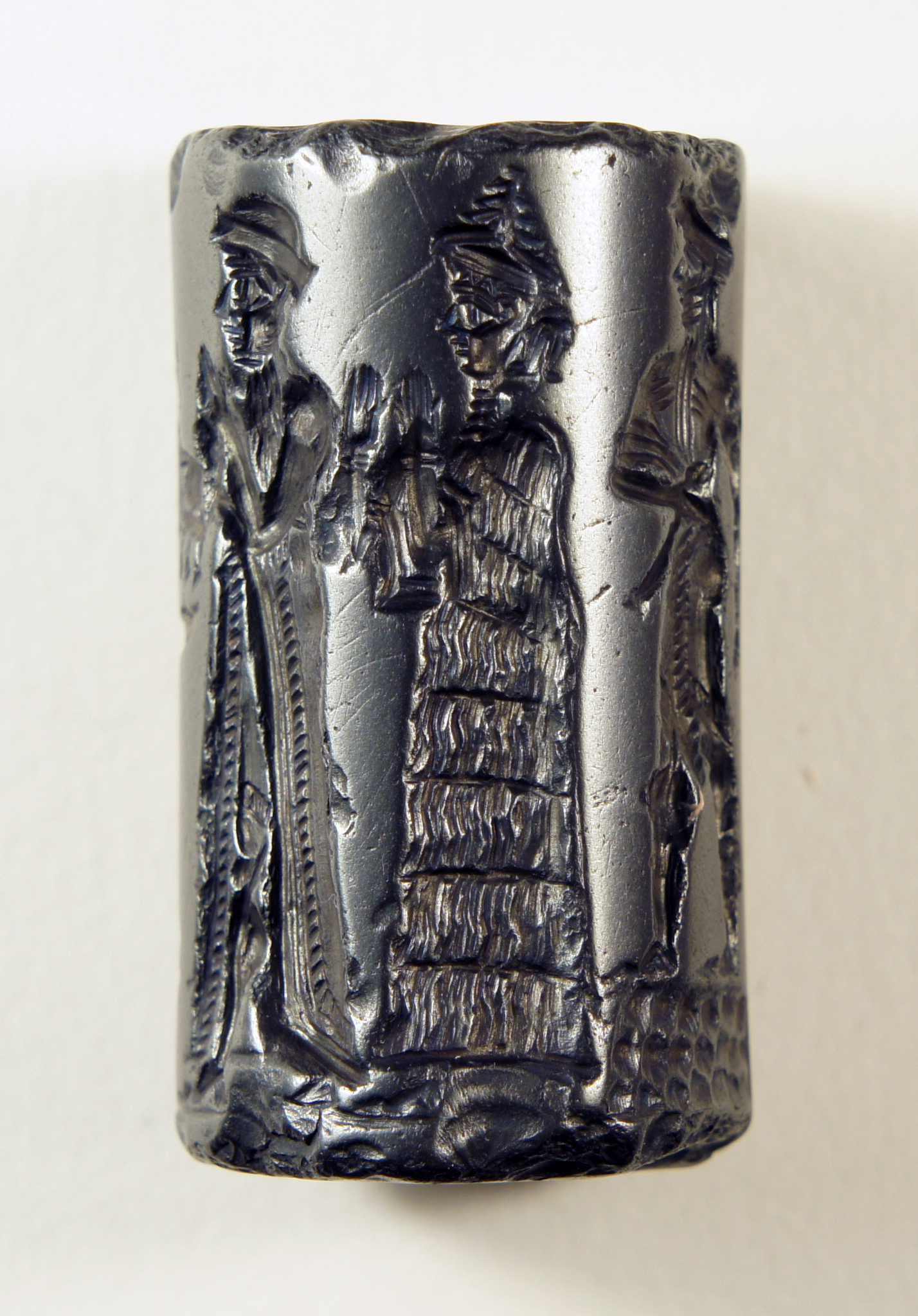 The king with a mace, who stands on a rectangular chequer-board dais, follows the suppliant goddess (with necklace counterweight), and the robed king with an animal offering. They stand before the ascending Sun god who holds a saw-toothed blade and rests his foot on a couchant human-headed bull (full face). Traces remain of an inscription (probably of four lines) erased in antiquity. The style of this seal suggests that it was made in a Sippar workshop. Haematite; chipped. 3.05 x 1.66 cm. This seal was among eight given to the school by Leonard Marshall in 1896. Ex. Charterhouse Collection (Charterhouse registry no. 2-1956-22) Published: Moorey, P.R.S. and Gurney, O.R. (1973), ‘Ancient Near Eastern Seals at Charterhouse’, Iraq, 35, p.76, no.13, pl.34. Sotheby’s sale catalogue, The Charterhouse Collection, London, 5/11/02, Lot 142.